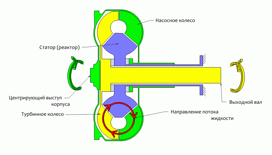 Based on File:Menic bez spojky.gif